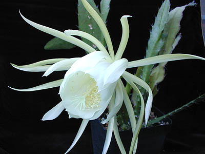 Epiphyllum crenatum subsp. kimnachii